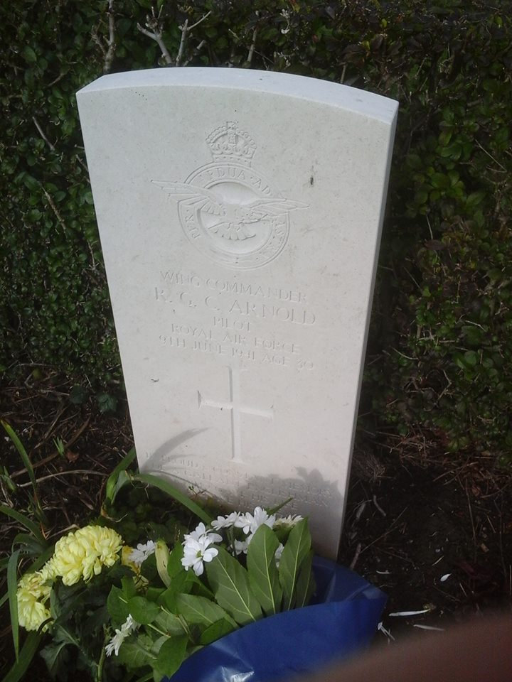 GRAVE OF ROY ARNOLD AT CWGC CEMETERY IN BLANKENBERGE, BELGIUM (Row A, Grave 18)